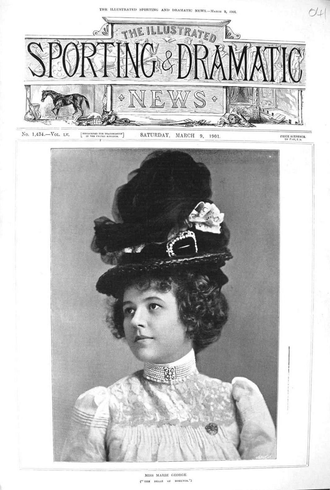 Marie George in The Belle of Bohemia - The Illustrated Sporting and Dramatic News, No. 1434, Vol. LV, 9 March 1901